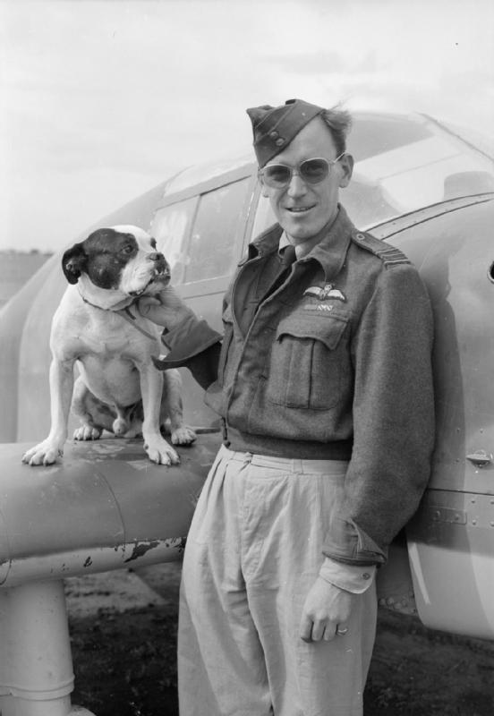 Royal Air Force- Italy, the Balkans and South-east Europe, 1942-1945. Wing Commander W G G Duncan-Smith, Wing Commander Flying, No. 244 Wing RAF, with "Bonzo", a bulldog mascot of one of the squadrons of the Wing, standing by his personal communications aircraft, a commandeered Italian Saiman 202, at Tortorella, Italy. Duncan-Smith joined the RAFVR as a Sergeant pilot before the War and flew his first operations with No. 611 Squadron RAF in October 1940. As his successes steadily mounted he was commissioned in spring 1941 and was then posted as a flight commander to No. 603 Squadron RAF in August 1941. Following a period of illness he was posted as adjutant to Southend airfield in January 1942, but eventually joined No. 411 Squadron RCAF as flight commander. In March 1942 Duncan-Smith was given the command of No. 604 Squadron RAF, and then led the Norwegian Spitfire Wing at North Weald until December 1942 when he was appointed Wing Commander Tactics at HQ Fighter Command. In May 1943 he arrived in the Mediterranean theatre, temporarily commanding the Luqa Fighter Wing on Malta before becoming Wing Leader of No. 244 Wing RAF in late July. Duncan Smith was promoted Group Captain in November 1943 and took command of of No. 324 Wing RAF with whom he continued to fly operationally until March 1945. His final victory score was 17 enemy aircraft confirmed destroyed and two shared.